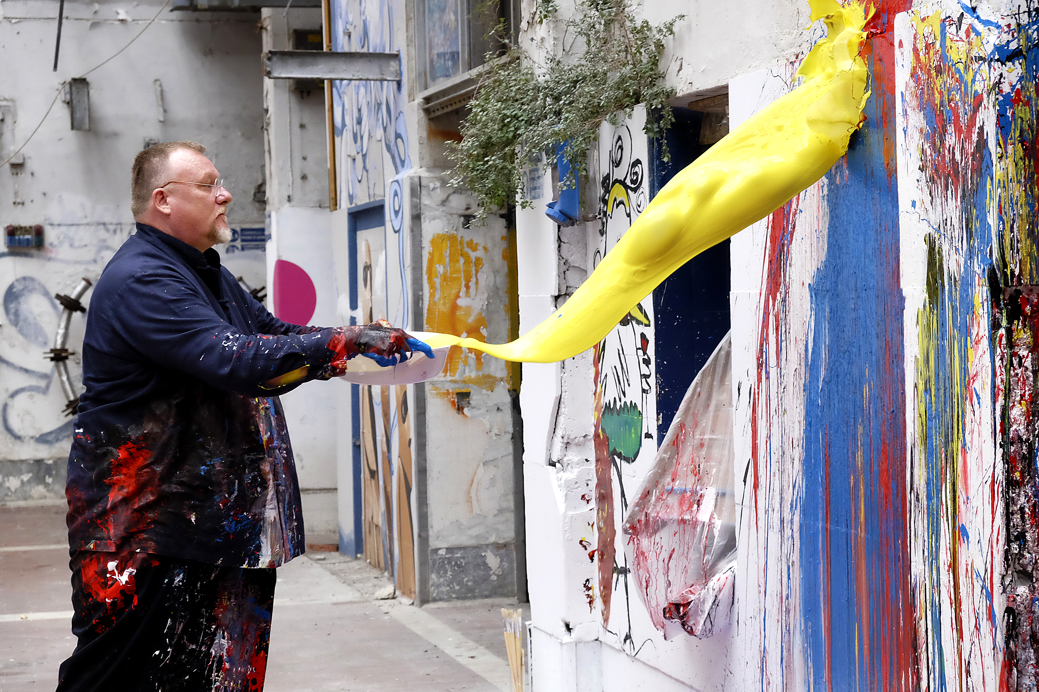 The Performative ritualistic Action painter and conceptual Artist Stevens Vaughn, at MAAM in Rome 2015. Permanent installation piece